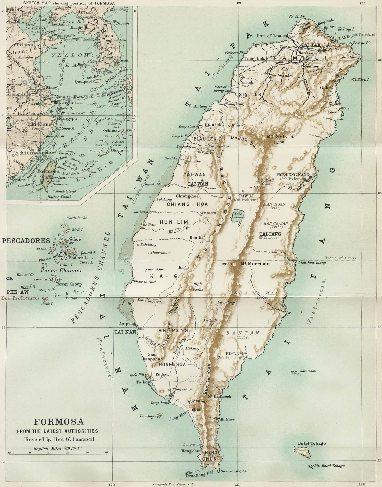 Map of Formosa (Taiwan)